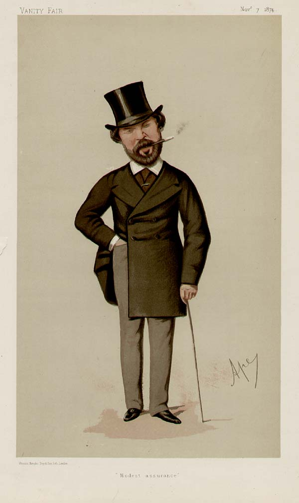 Caricature of Mr H du Pre Labouchere MP. Caption read "Modest assurance".